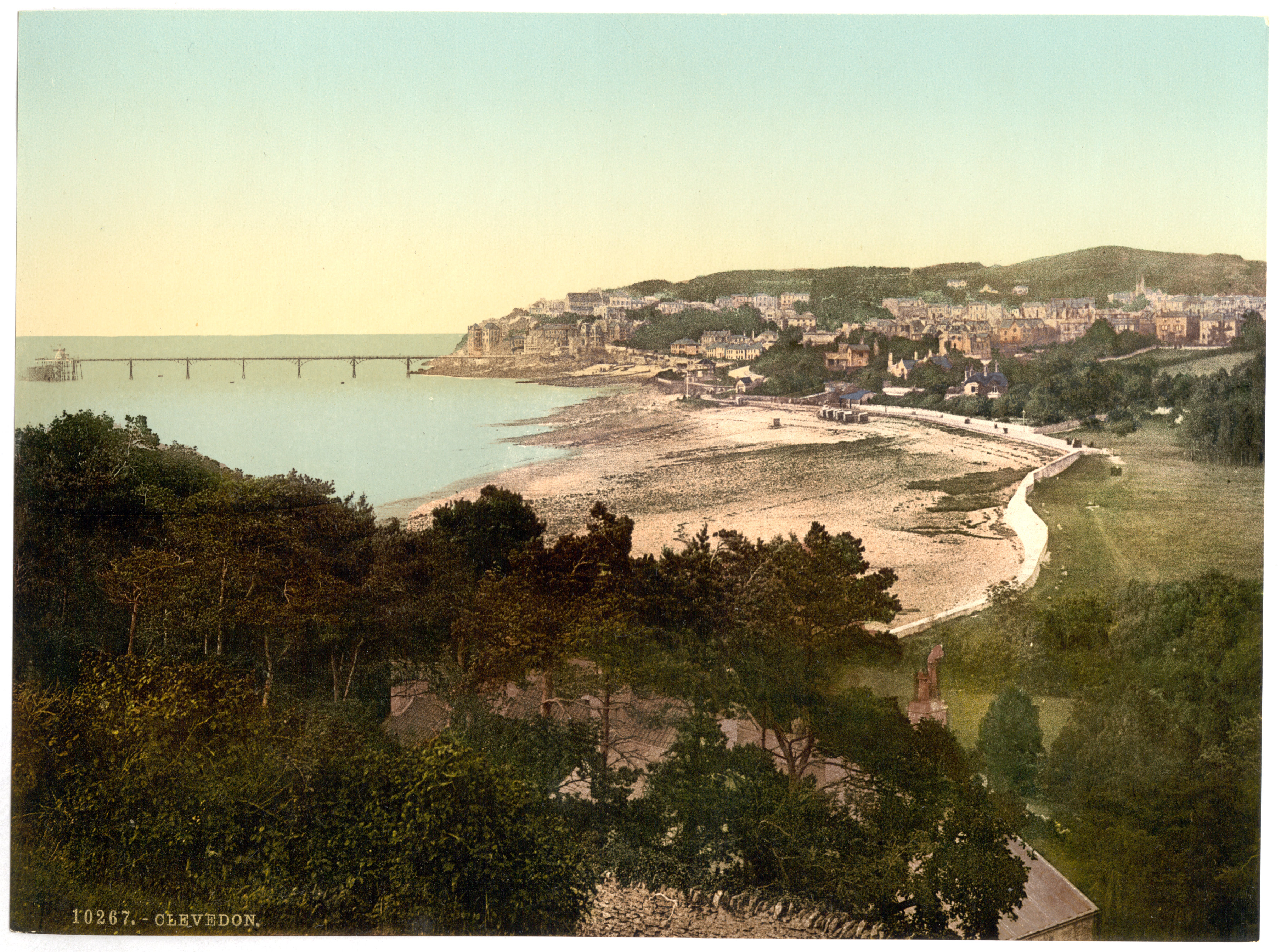 Photochrom of Clevedon.